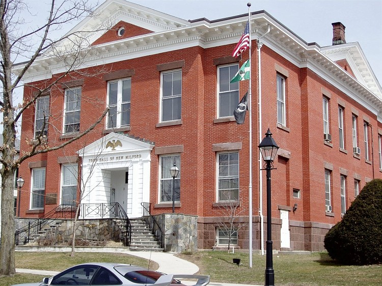 Town Hall, New Milford, Connecticut; part of its center historic district.